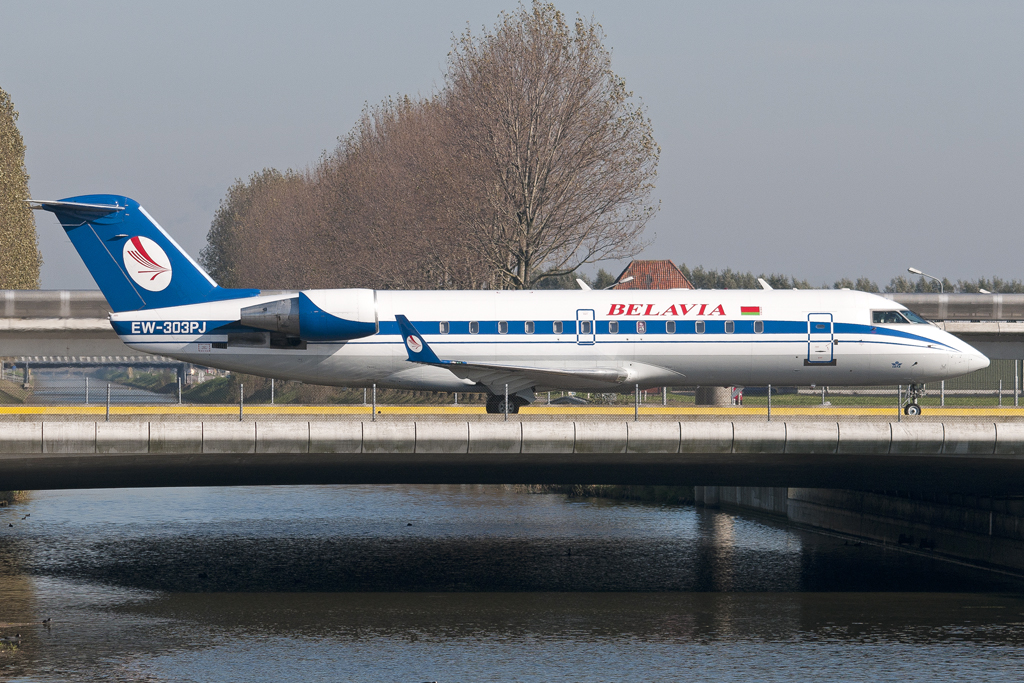 Perfect size to photograph on the bridge. Bombardier CRJ-200ER Amsterdam schiphol [AMS / EHAM] 22-10-2011